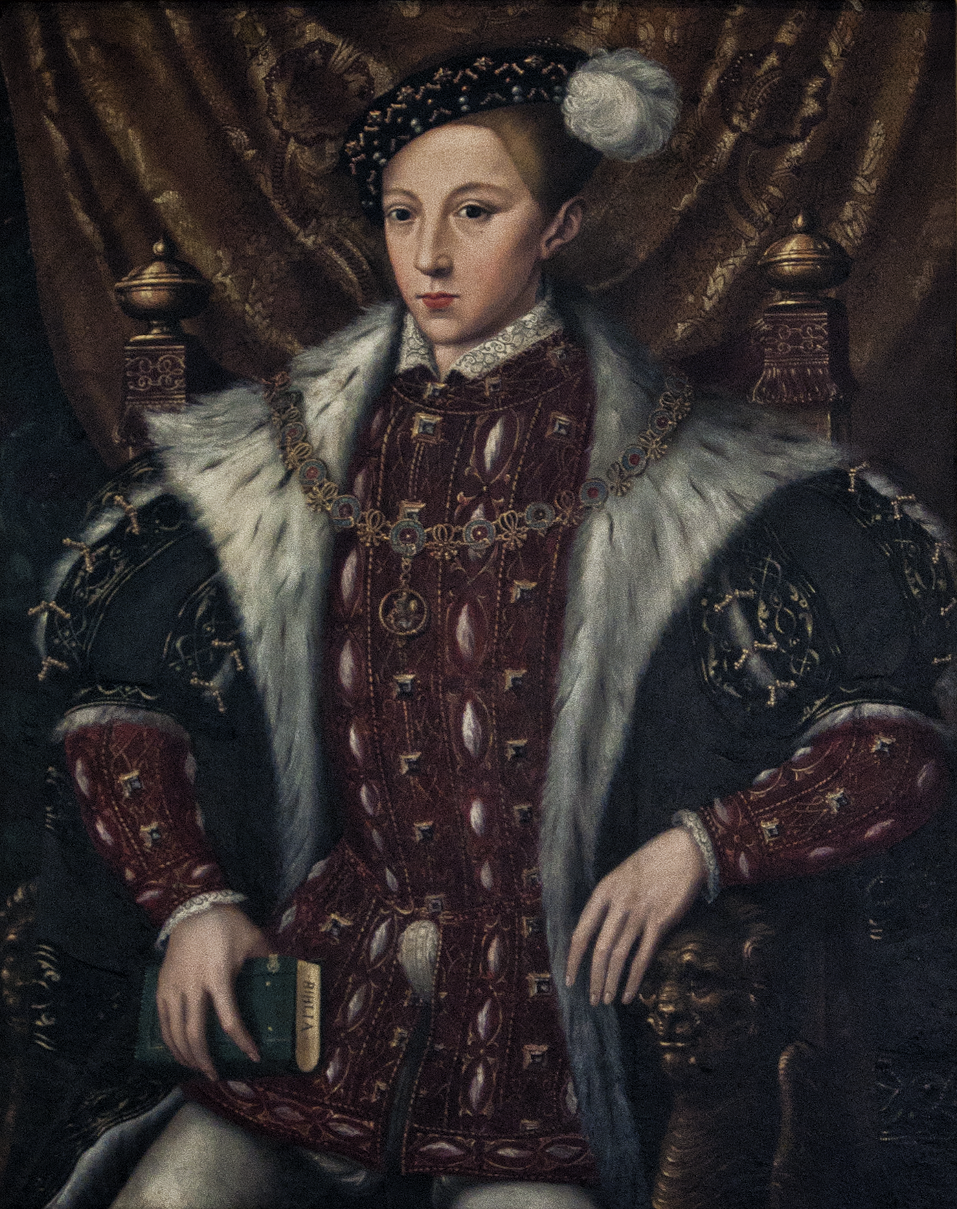 William Scrots (?-1553) - Edward VI (1537-1553) - Leeds Castle